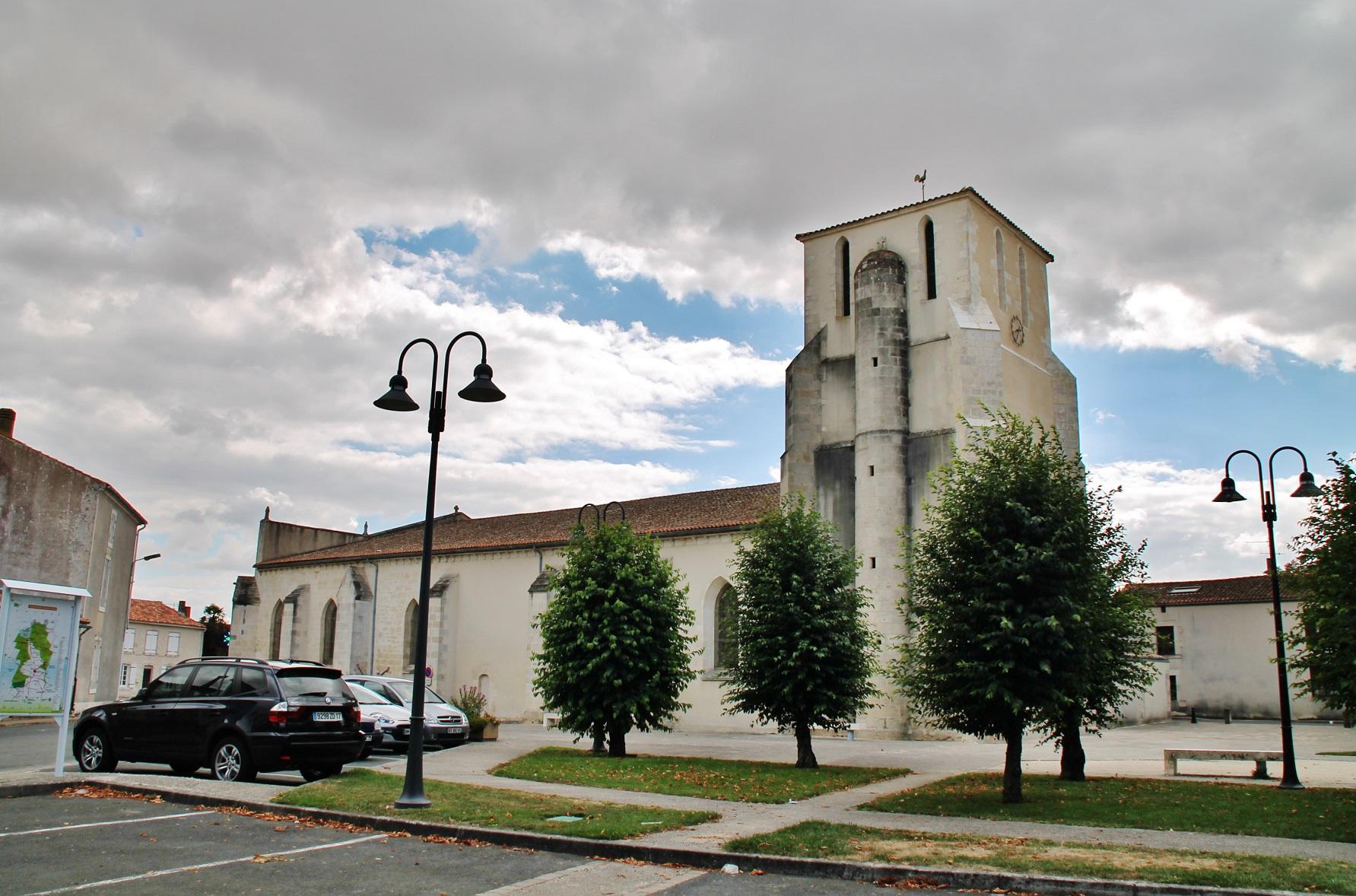 église St Jean-Baptiste